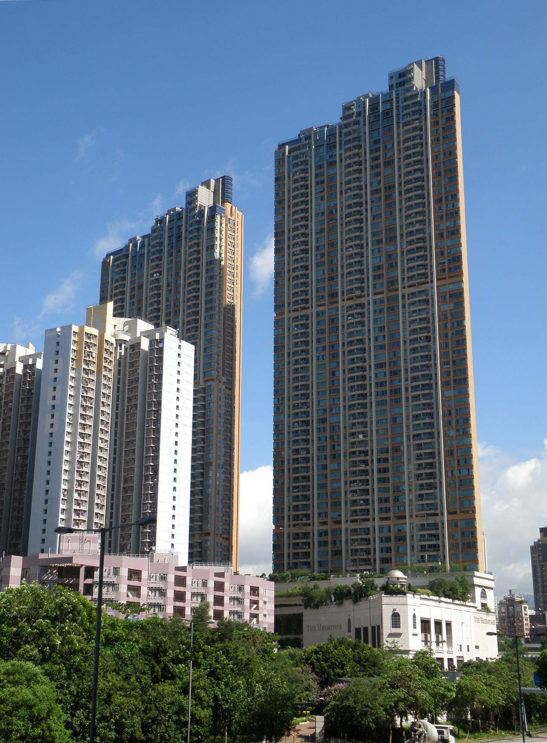 The Hermitage in Mong Kok, Hong Kong.